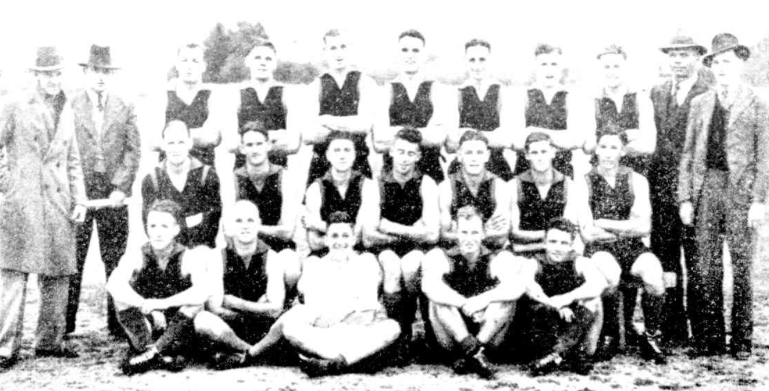 Harold Oliver with the 1938 Berri Football Club premiership team.